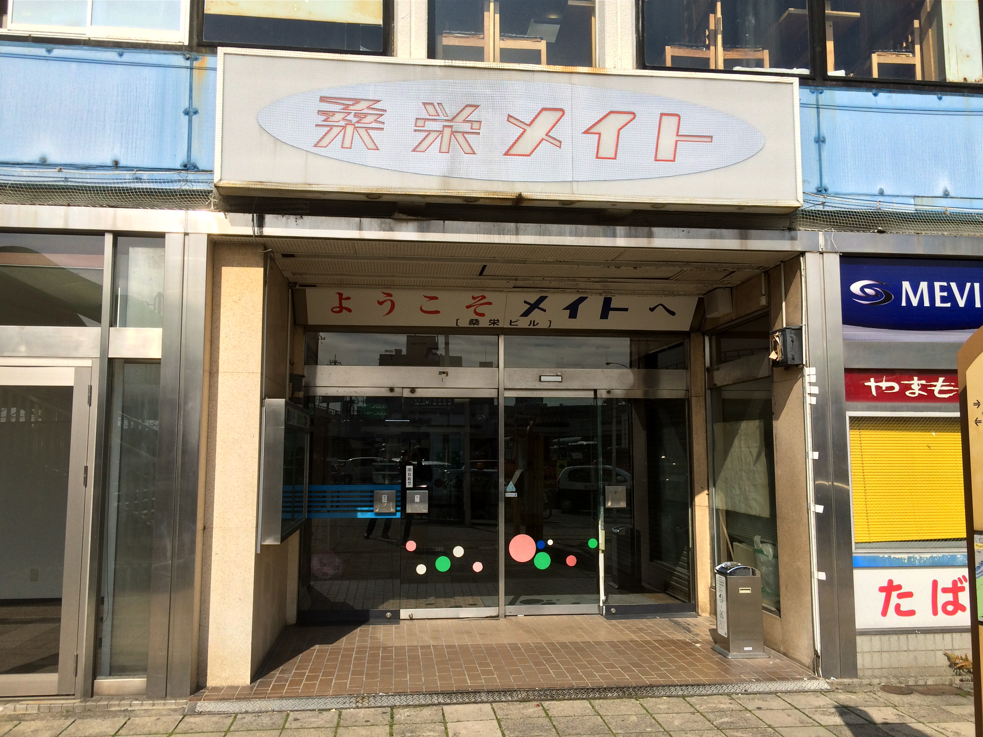 Entrance 1F of Souei Meito on traffic circle at Kuwana station East exit.